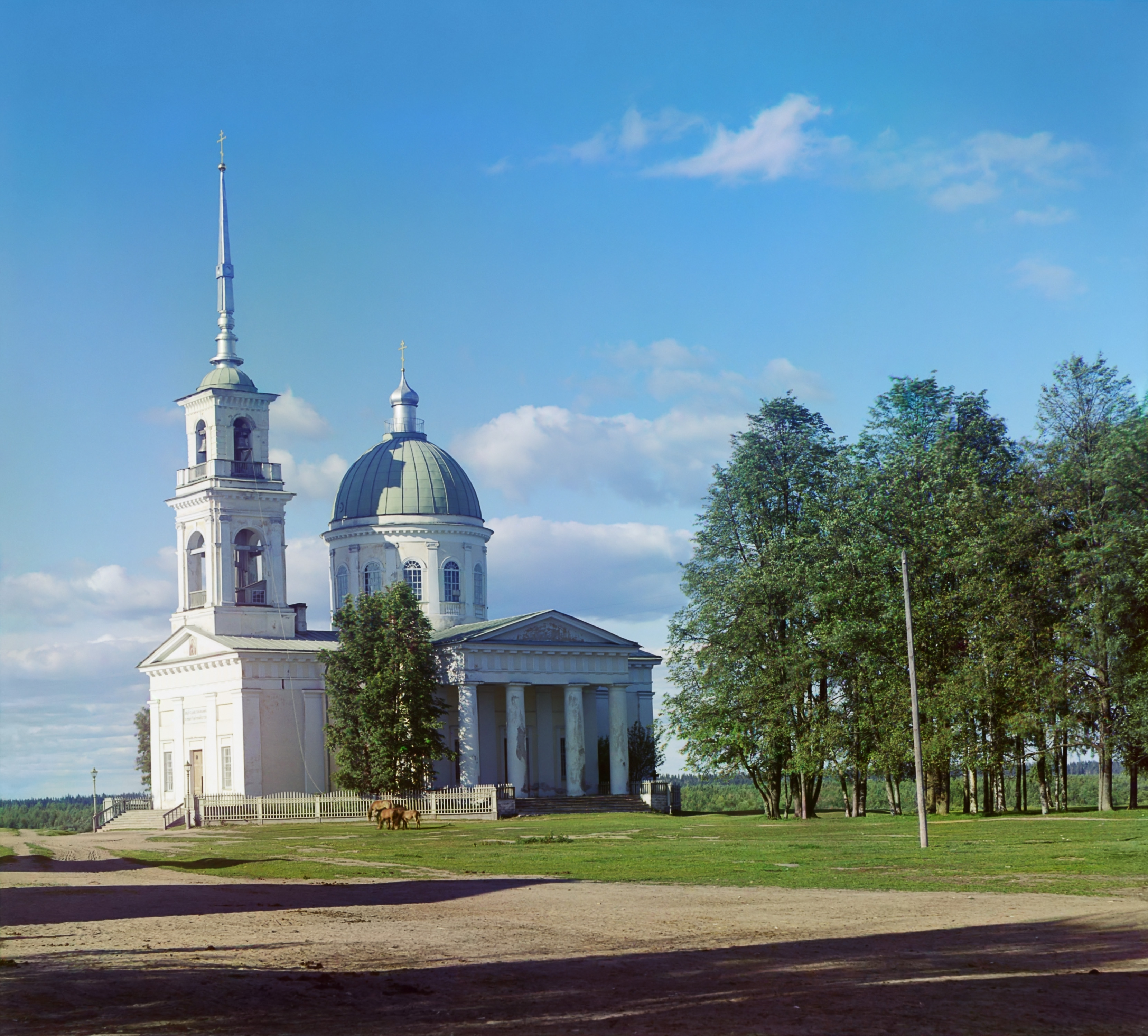 Cathedral of Sts. Peter and Paul in Lodeynoye Pole, Russia.